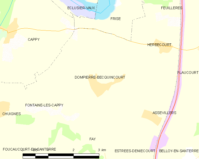 Map of French municipality Dompierre-Becquincourt